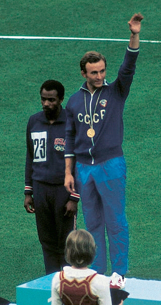 Robert Taylor and Valeriy Borzov, 1972 Olympics